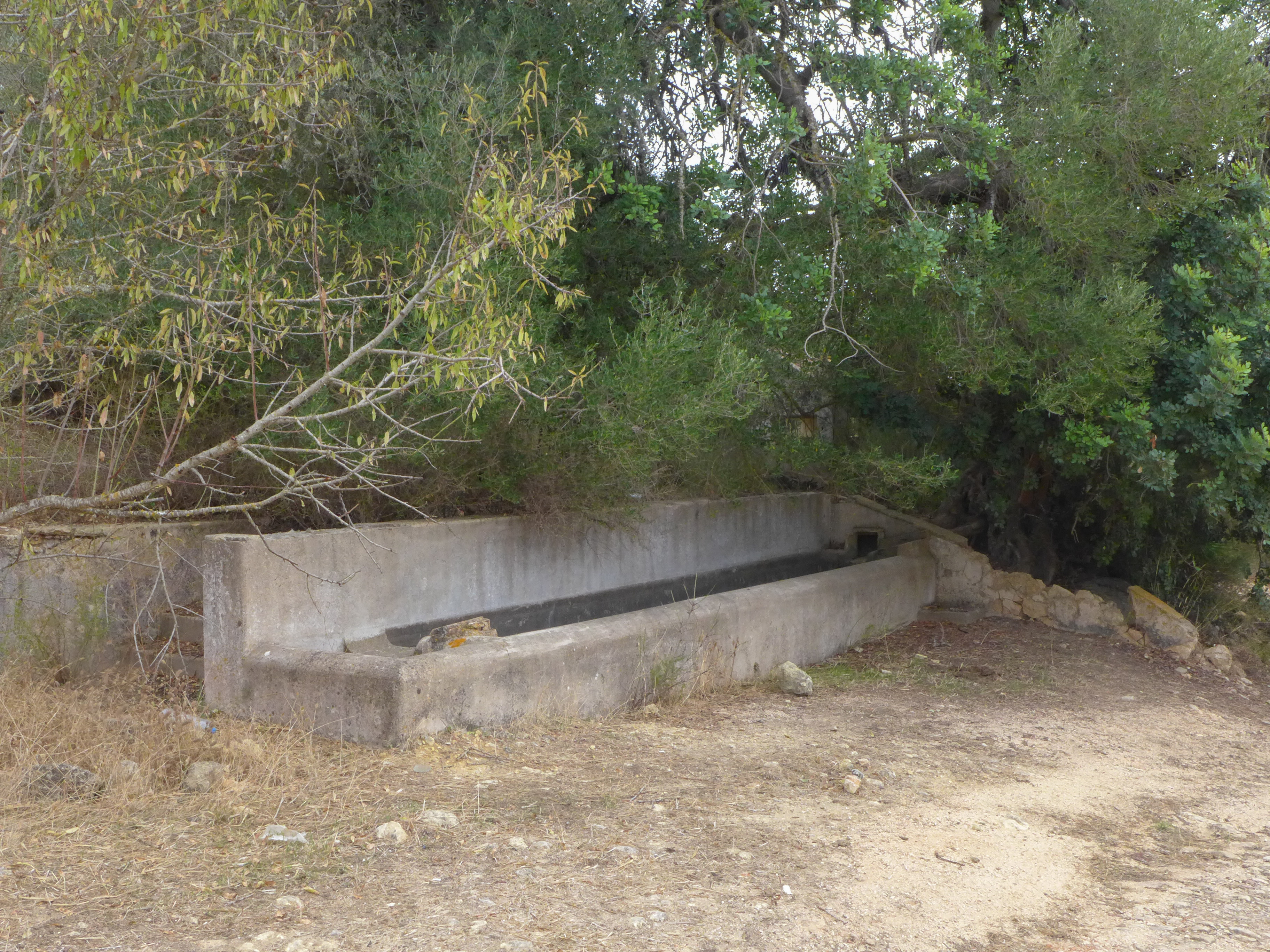 Abicada Farm, Abicada, Algarve, Portugal. October 2016